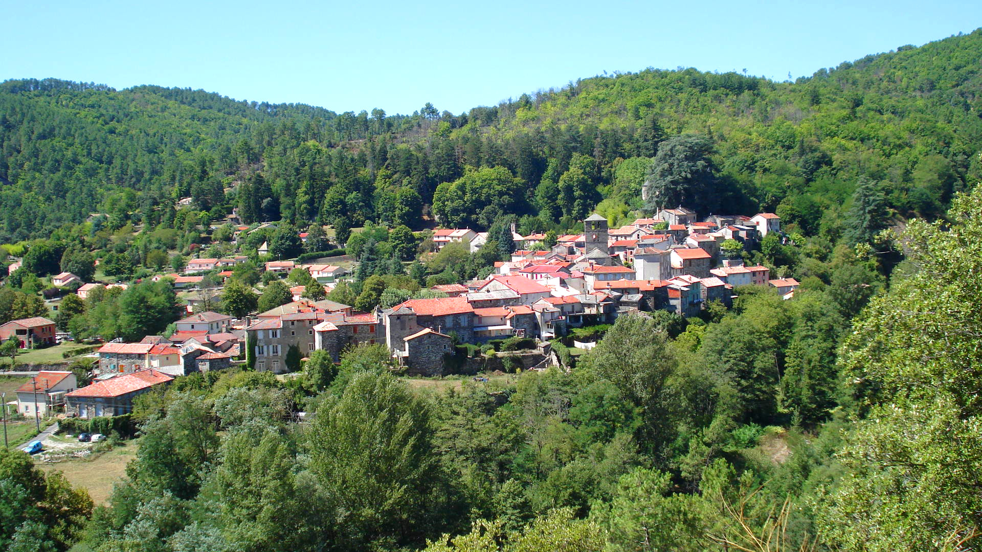 south view of the village- Saint-Etienne-Vallée-Française-Lozère